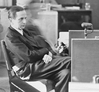 Otto Ohlendorf testifying on his own behalf in the Einsatzgruppen Trial in Nuremberg, Germany, 1947/48.